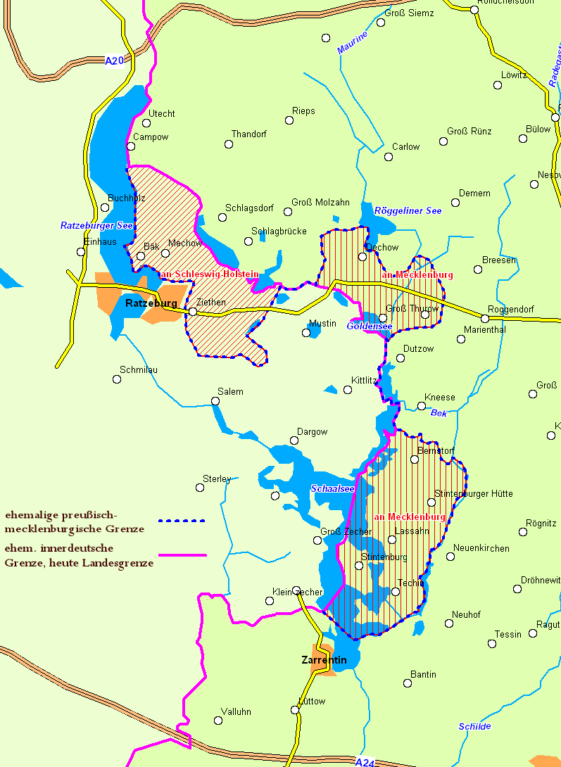 Map of the territories of the Barber-Lyaschenko-Contract